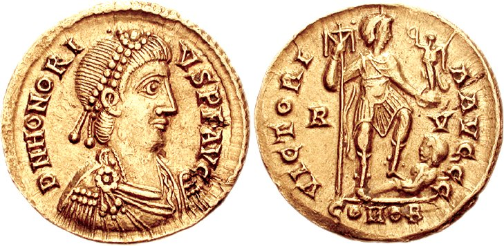 Honorius. AD 393-423. AV Solidus (4.42 g, 7h). Ravenna mint. Struck AD 402-406. Pearl-diademed, draped, and cuirassed bust right Honorius standing facing, head right, foot on bound captive, holding labarum and Victory on globe; R-V//COMOB. RIC X 1287; Ranieri 12; Depeyrot 7/1. Good VF, traces of deposits. From the Alain Lagrange Collection. Ex Schweizerische Kreditanstalt 3 (19 April 1985), lot 759.